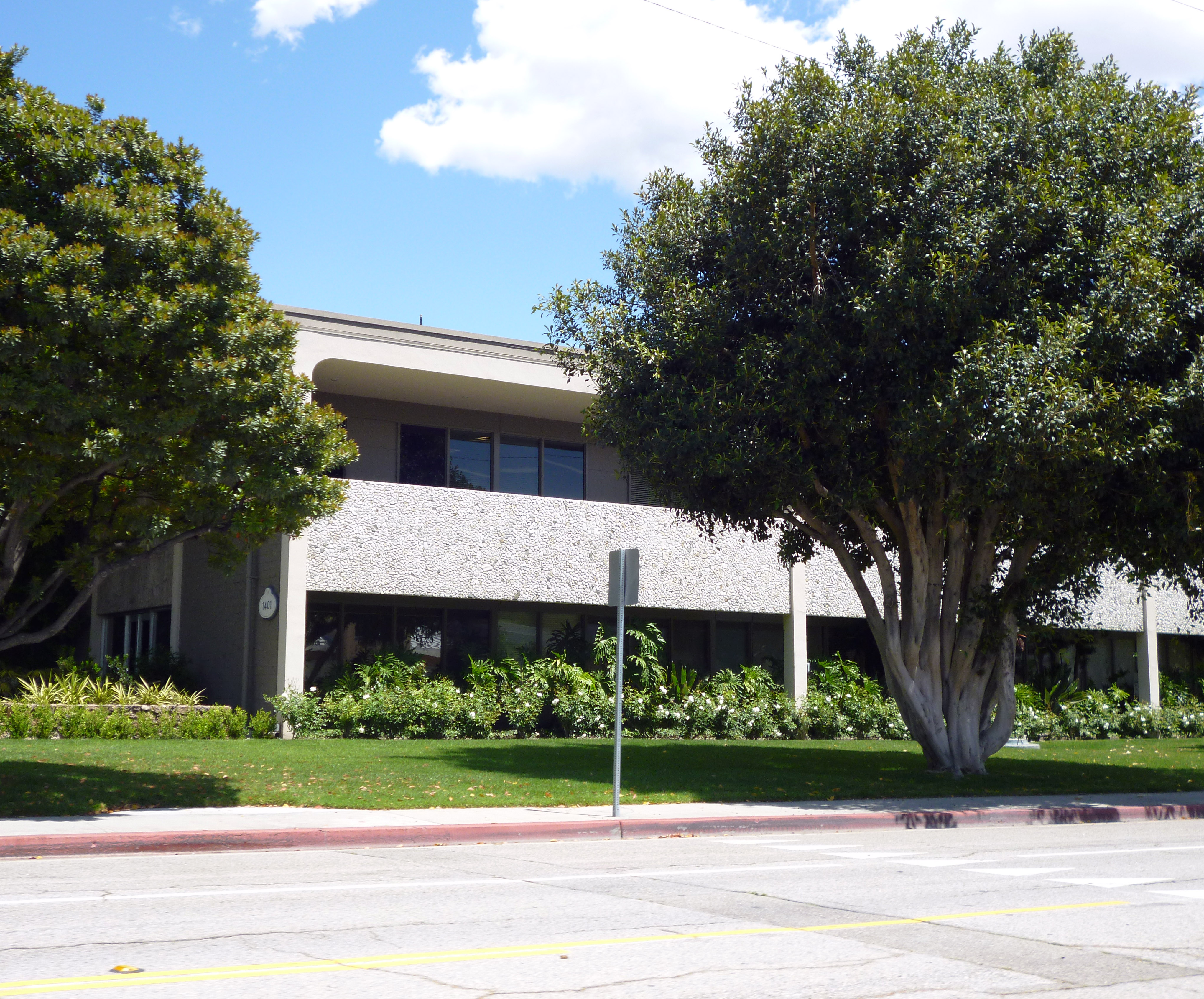 Walt Disney Imagineering headquarters, 1401 Flower Street, Glendale, California.